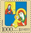 Kobryn COA stamp